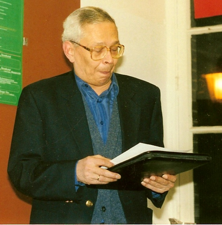 John Leefmans, poet from Suriname